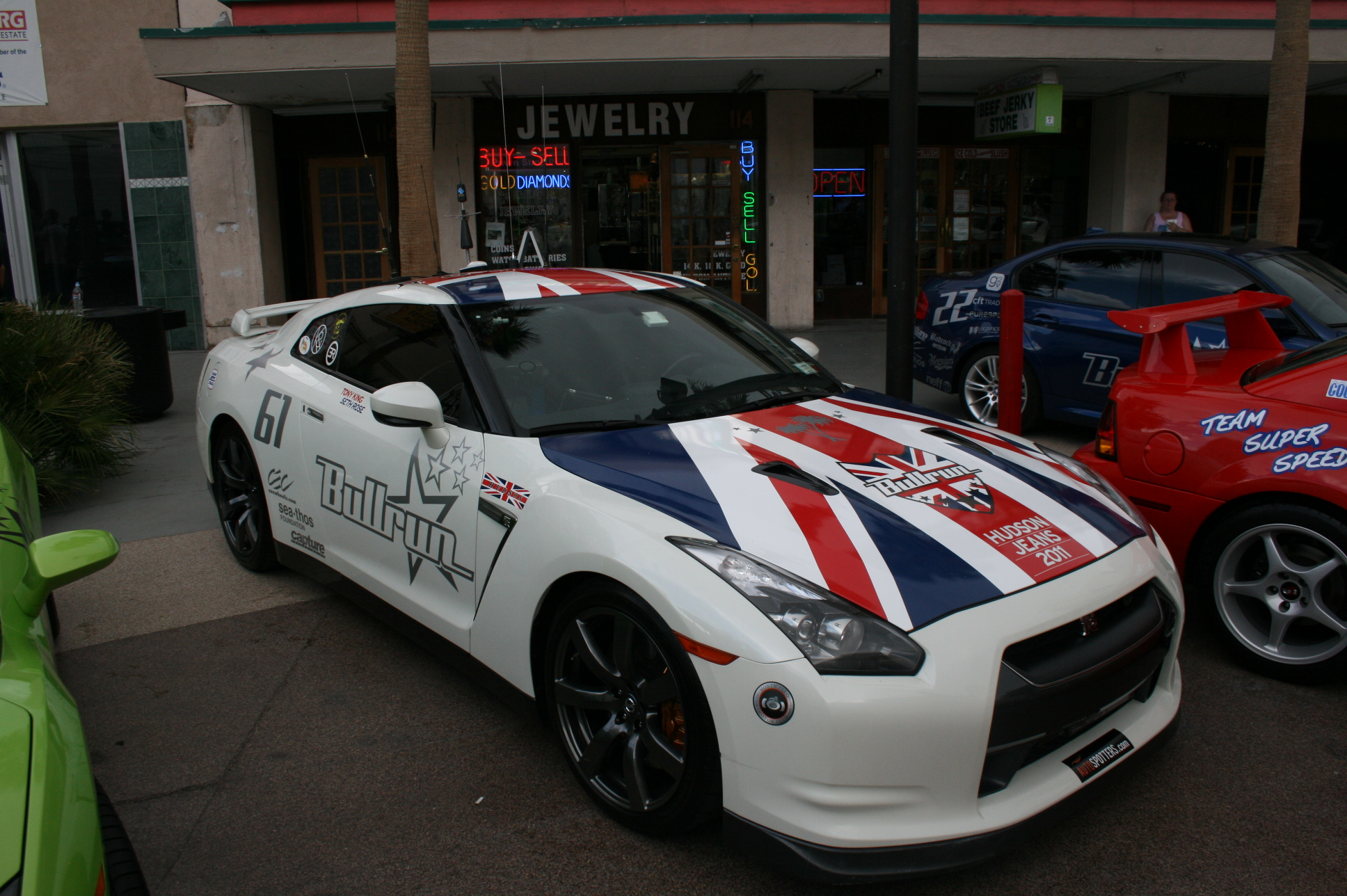 Exotics Rally Bullrun 2011 Award Winning -Nissan GTR- Seth Rose